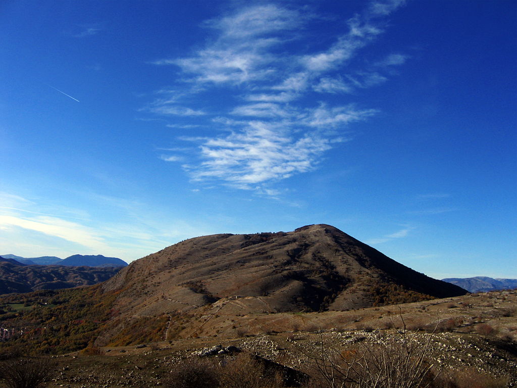 Monte Faito.